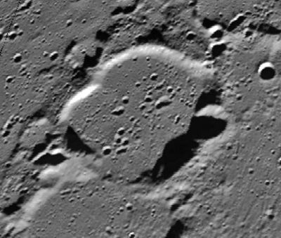 Main lunar crater - Clementine image